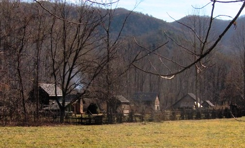 The Mountain Farm Museum at Oconaluftee, in the Great Smoky Mountains of North Carolina.